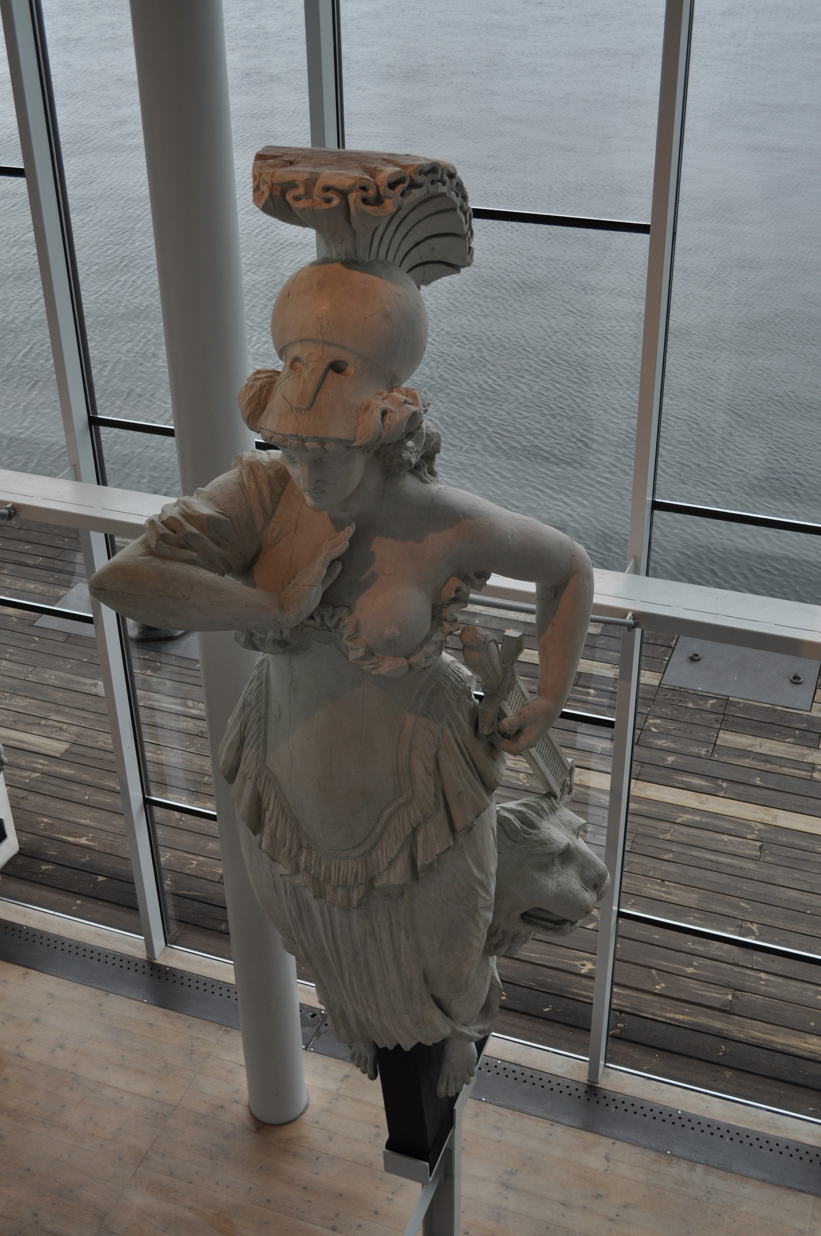 Figurehead Svea made by Johan Törnström 1785 for the 60- gunship Fäderneslandet launched 1783. Marinmuseum Karlskrona, Sweden